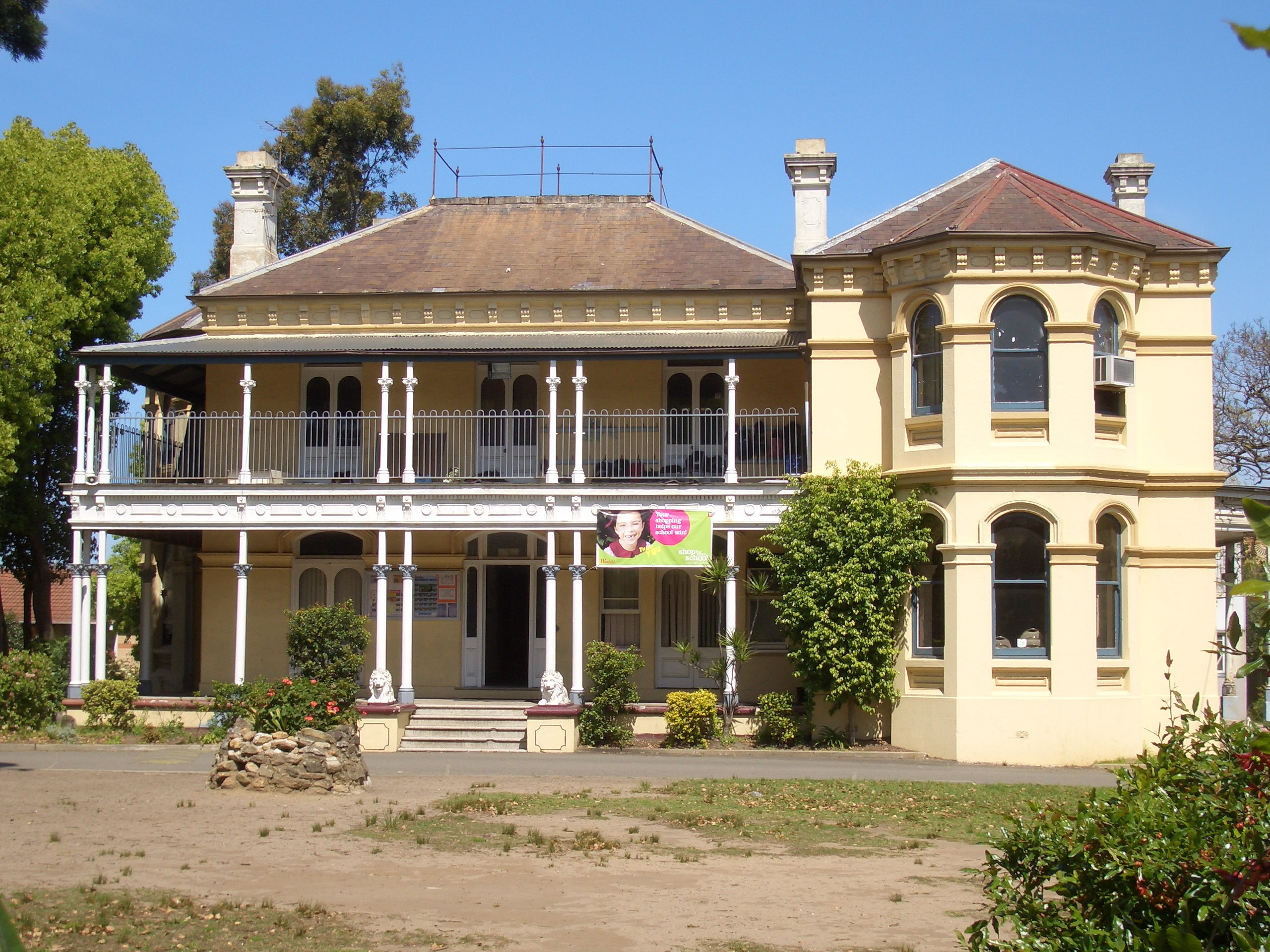 Strathfield South Theological College